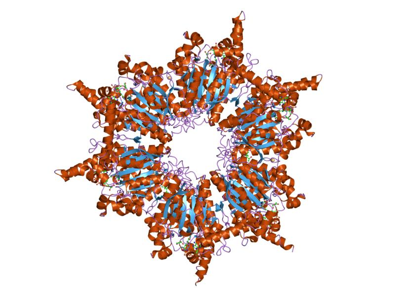 Cartoon representation of the molecular structure of protein registered with 1on3 code.